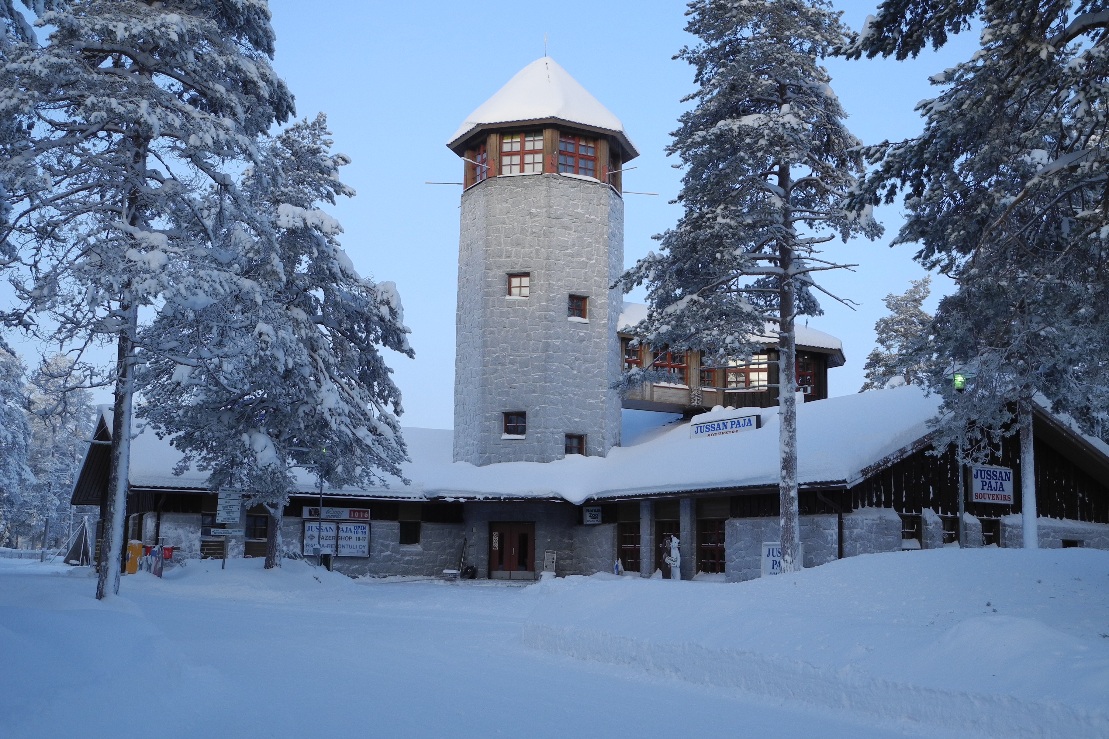 Main building of Ranua Zoo in Ranua, Finland.